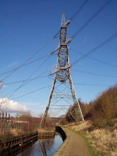 Electricity pylon (National Grid tower designation 4ZO251B) straddling the Huddersfield Narrow Canal at Heyrod, near Stalybridge